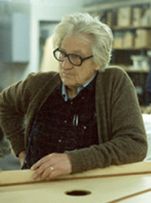 American harpsichord maker David Jacques Way, visiting Kevin Fryer's San Francisco workshop in April 1987.